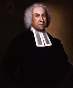 Portrait of Thomas Prince, minister of Old South, Boston.